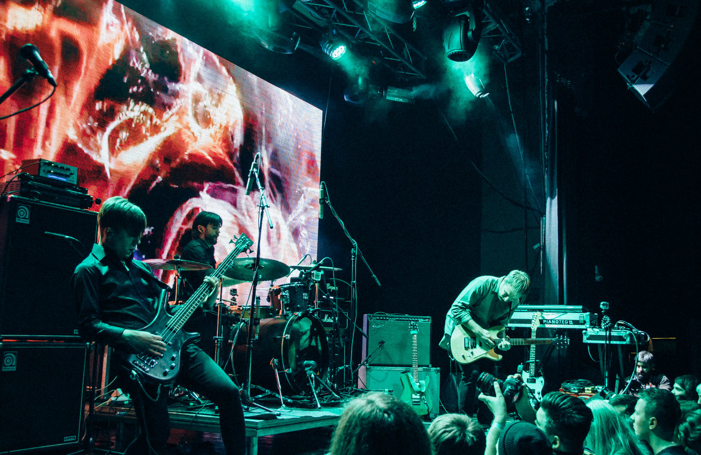 Way Station live @ Atlas (Kiev 29.02.16)